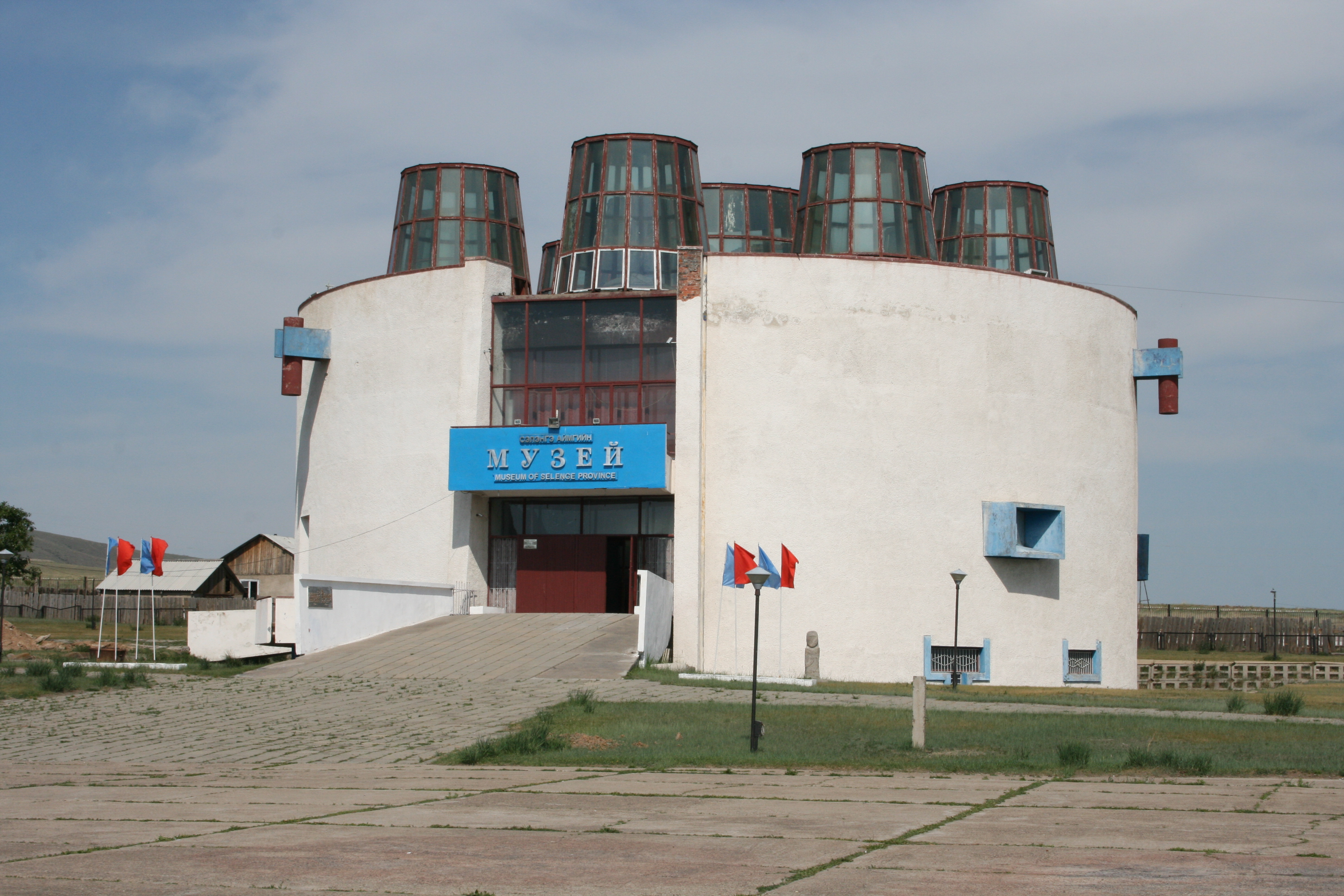 Museum of Selenge Province, Sükhbaatar